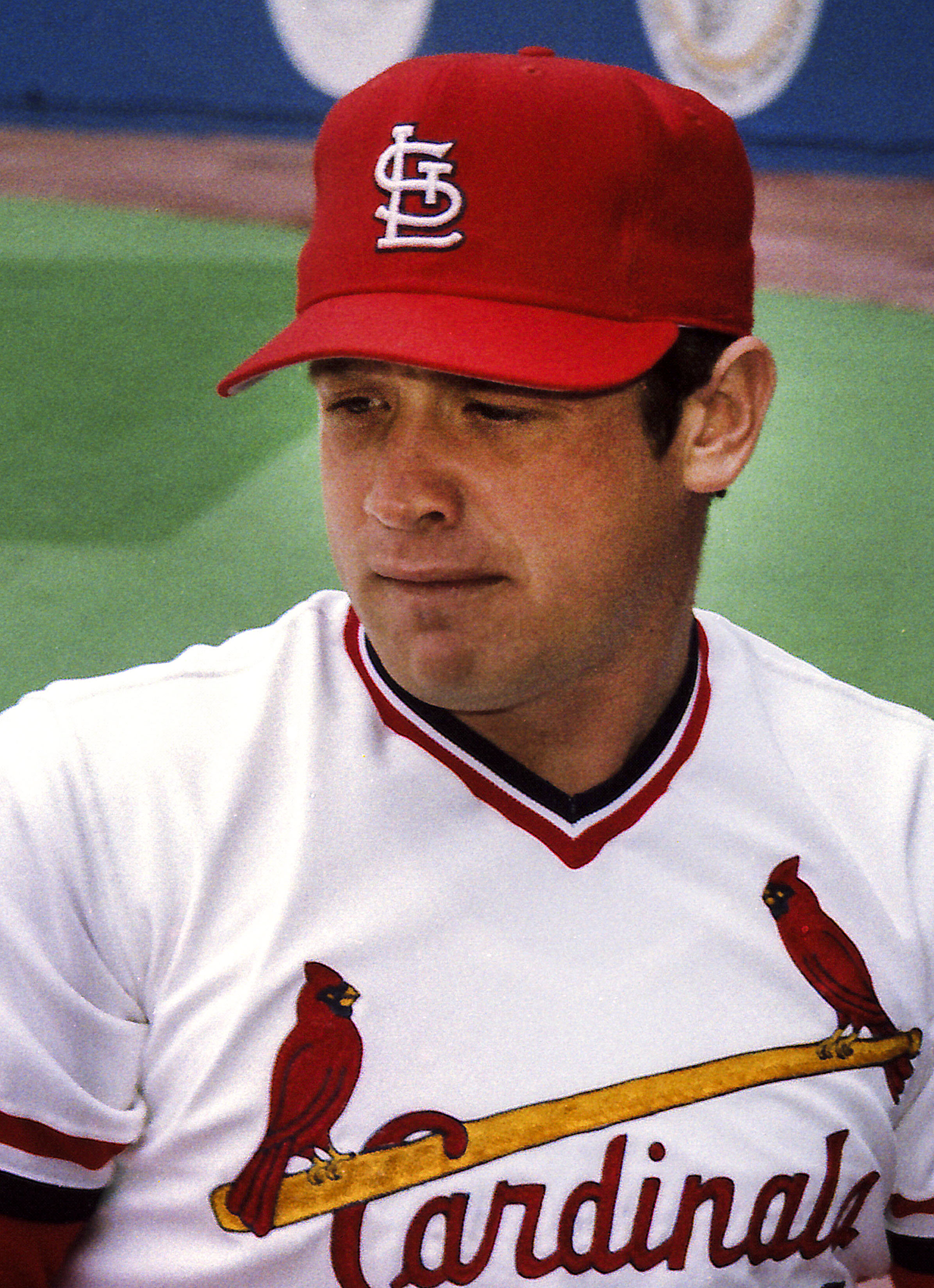 Cards Catcher Glenn Brummer 1983